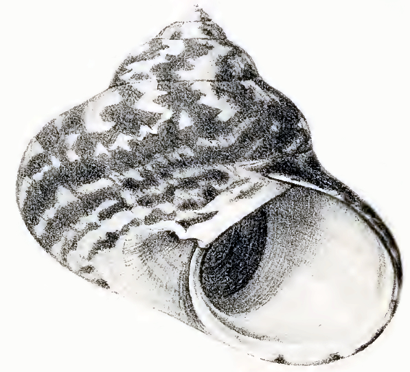 Drawing of the shell of Cittarium pica (L. 1758), by George Washington Tryon Jr (1889).